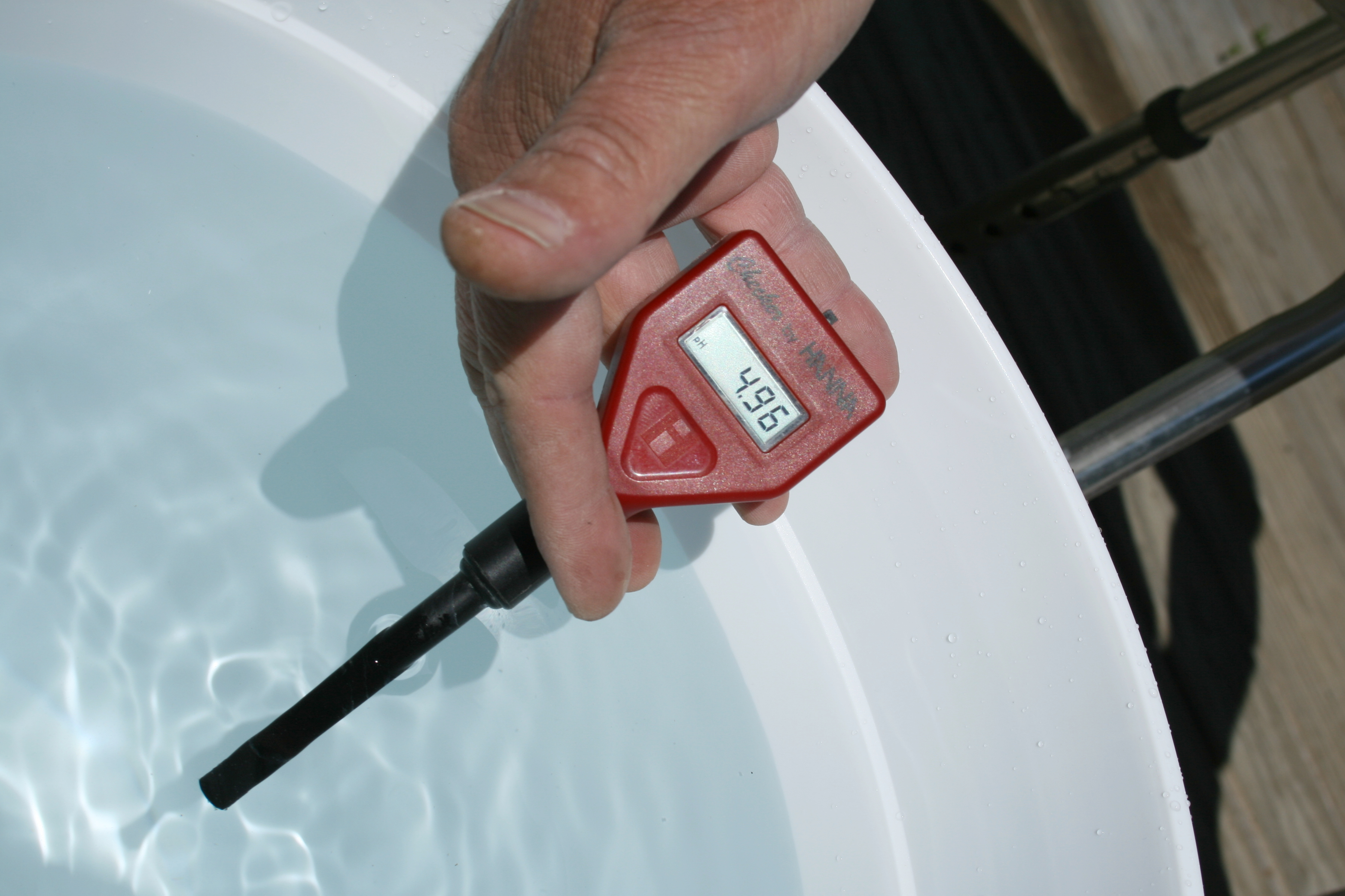 Rix Dobbs uses a pH meter to measure the acidity of water in a bucket.